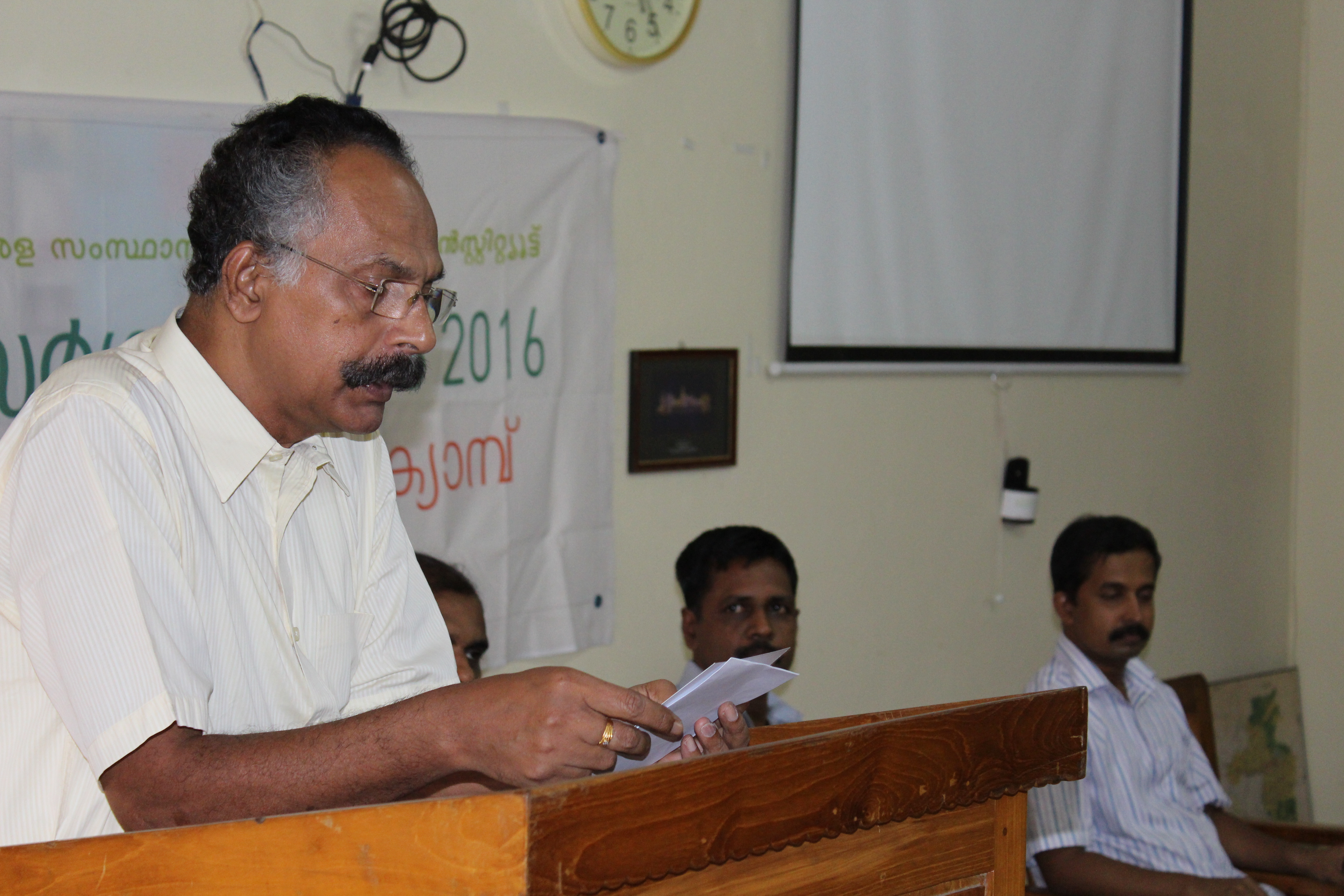 Dr. Paul Manalil at Silent Valley